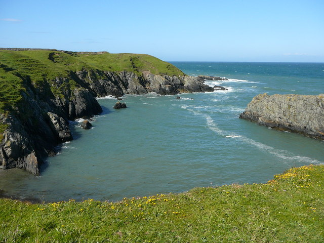 Porth Gwylan near Tudweiliog